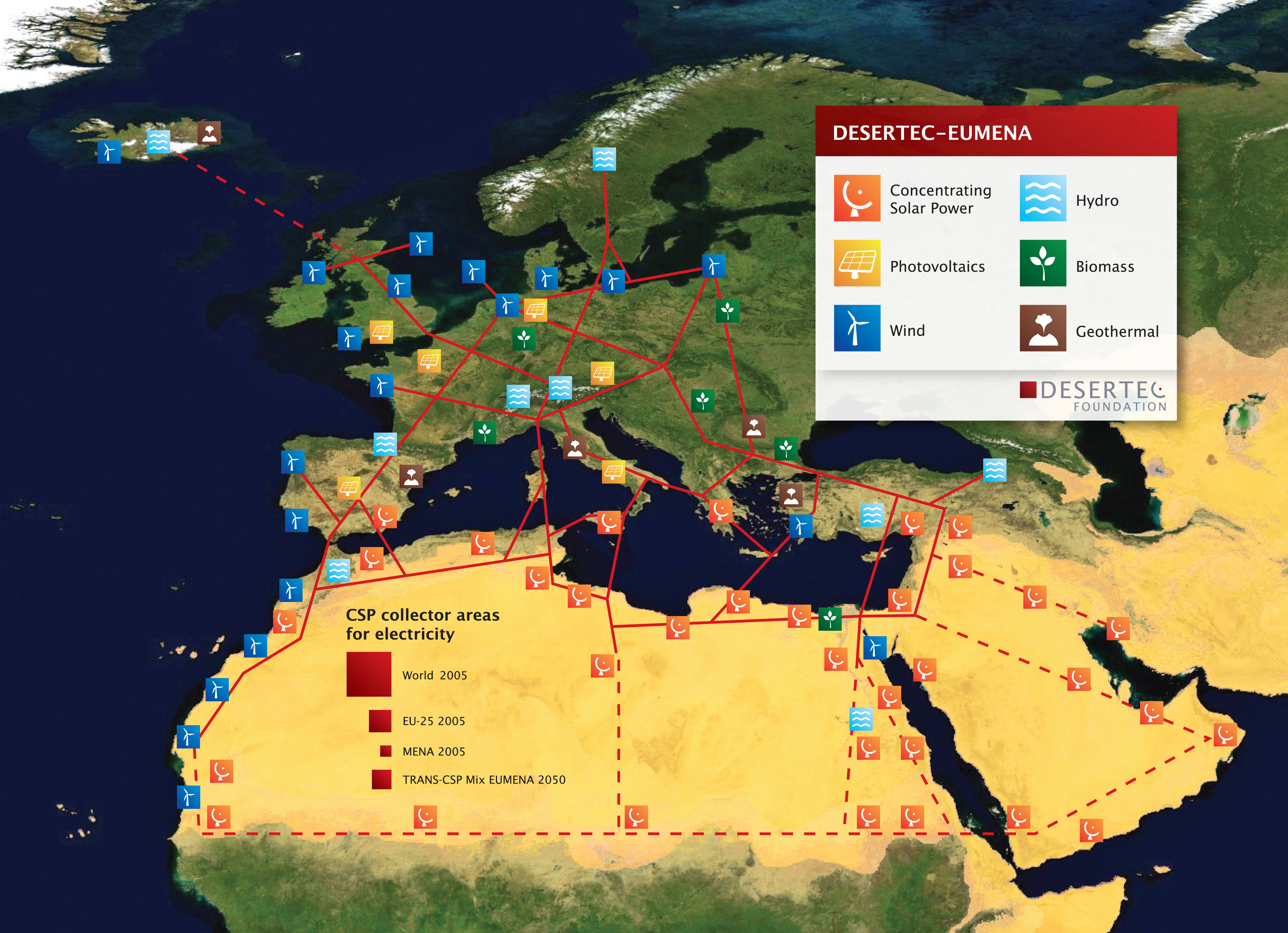 DESERTEC EU-MENA Map: Sketch of possible infrastructure for a sustainable supply of power to Europe, the Middle East and North Africa (EU-MENA) proposed by TREC) For illustration: The red squares represent the total surfaces needed for solar collectors of Concentrating Solar Thermal Power (CSP) plants to provide the present electricity demands - for the world (18.000 TWh/a, 300x300 km) - for Europe (EU 3.200 TWh/a, 125x125 km) - and for Germany or MENA (Middle East and North Africa, about 600 TWh/a, 55x55 km). - The square labeled "TRANS-CSP Mix EUMENA 2050" indicates the surface needed for solar collectors to realize DESERTEC in EU-MENA (according to the TRANS-CSP scenario by DLR). This way the needs for seawater desalination and about two-thirds of the rising electricity consumption in the MENA region could be provided and about 17 percent of the European electricity consumption in 2050 (2,940 TWh/a, 120x120 km² in total). In reality numerous CSP-Plants will be spread in the deserts of EU-MENA and around the globe.